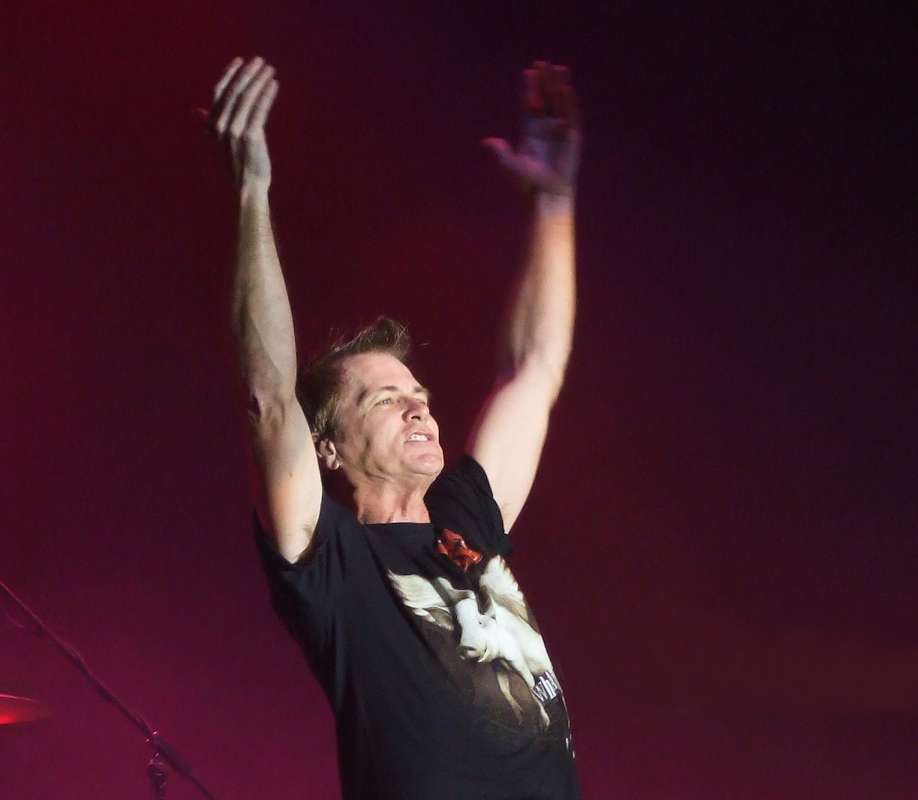 Pat Torpey - the American rock and roll drummer, known as the drummer of the hard rock band Mr. Big. The photo was taken during the Mr.Big' concert at Festivalna Hall, Sofia, Bulgaria.